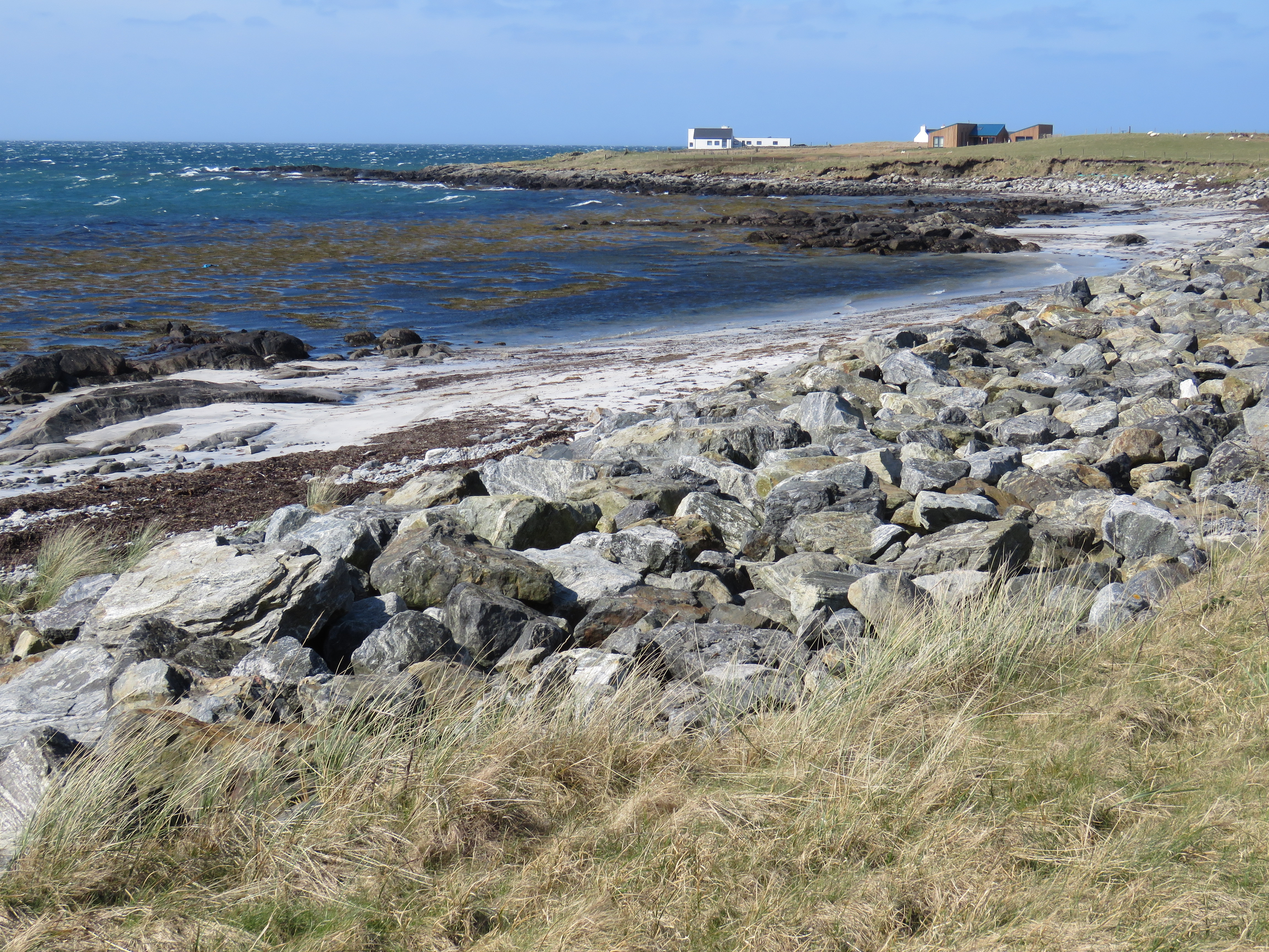 south coast of South Uist